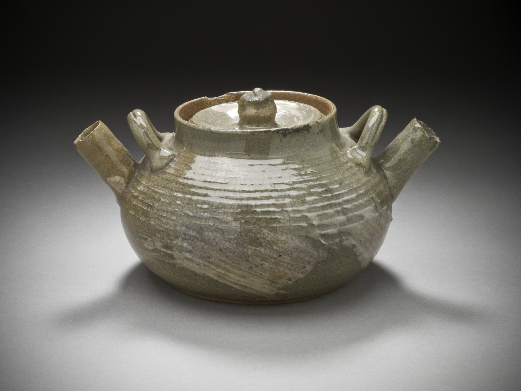 Japan, Edo period, early 19th century Furnishings; Serviceware Akahada ware; stoneware with concentric groove design and hakeme decoration Gift of James D. and Veronica H. Roorda (M.2004.299.2a-b) Japanese Art